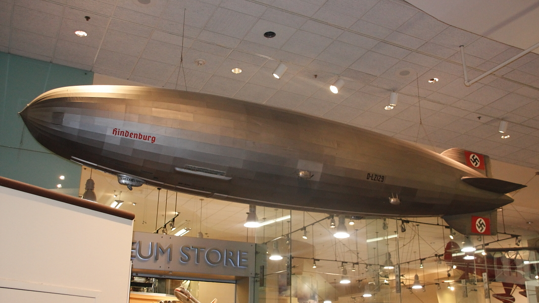 Model used in the 1975 film "The Hindenburg," now displayed in front of Museum Shop at the National Air and Space Museum.